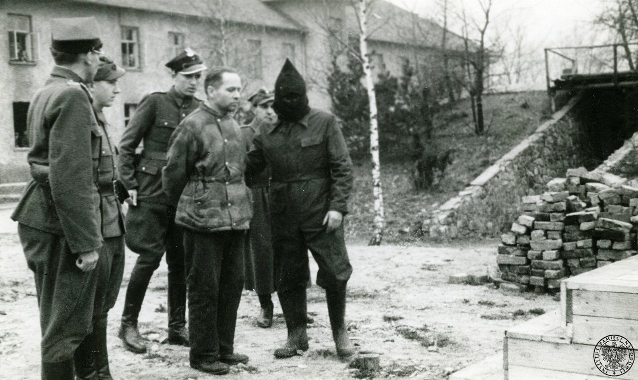 Camp commandant, war criminal Rudolf Hoess walking to his gallows next to crematorium in the Nazi German death camp Auschwitz Stammlager in Poland.